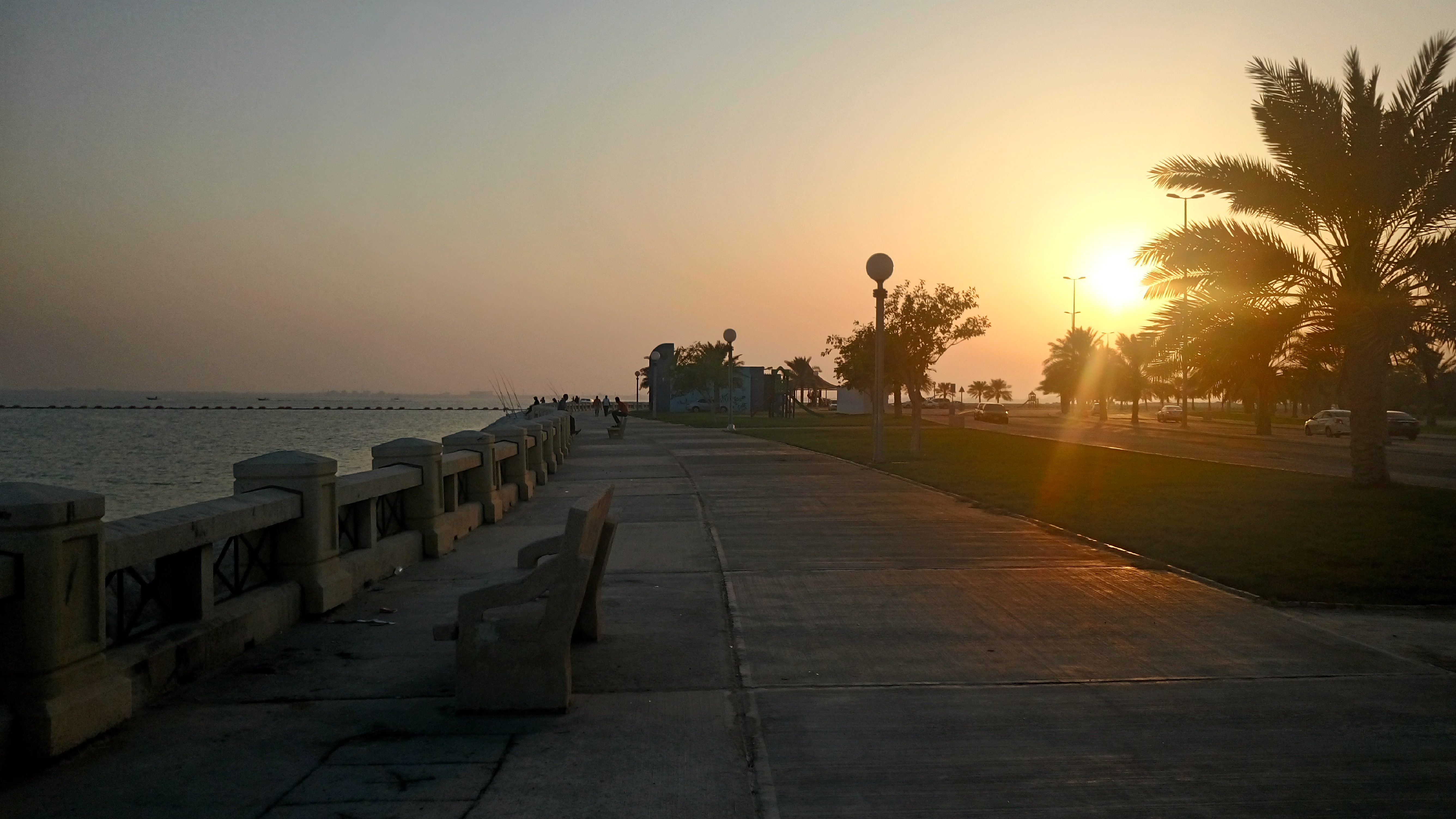 A view of Darin Corniche, on the Arabian Gulf.